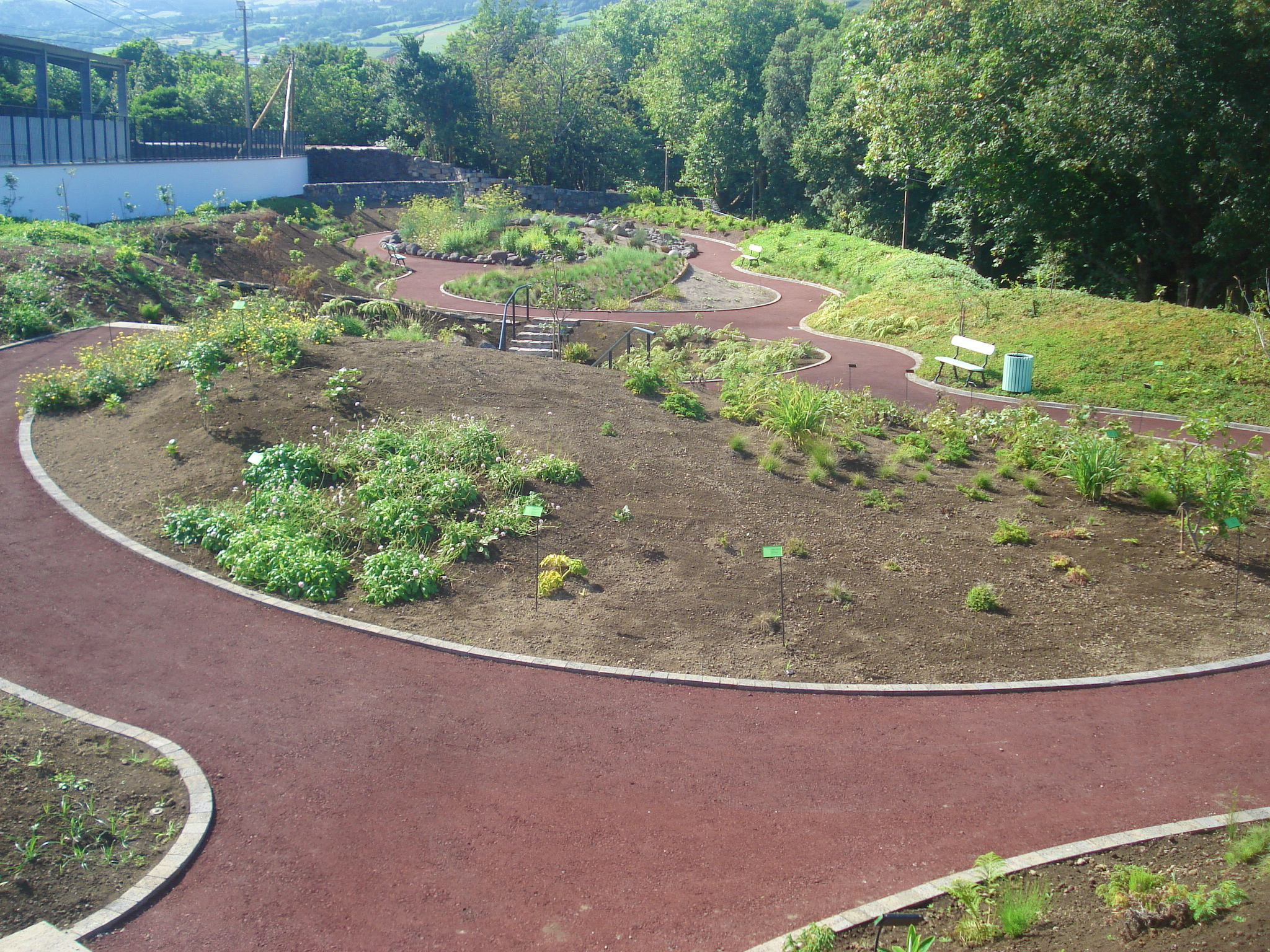 The open-air exhibition hall of indigenous plants of the Azores, in the Botanical Garden of Faial, civil parish of Flamengos, municipality of Horta (Azores), Portugal